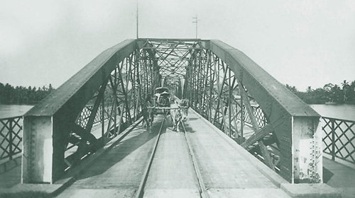 Ghenh Bridge in Vietnam in 20th century